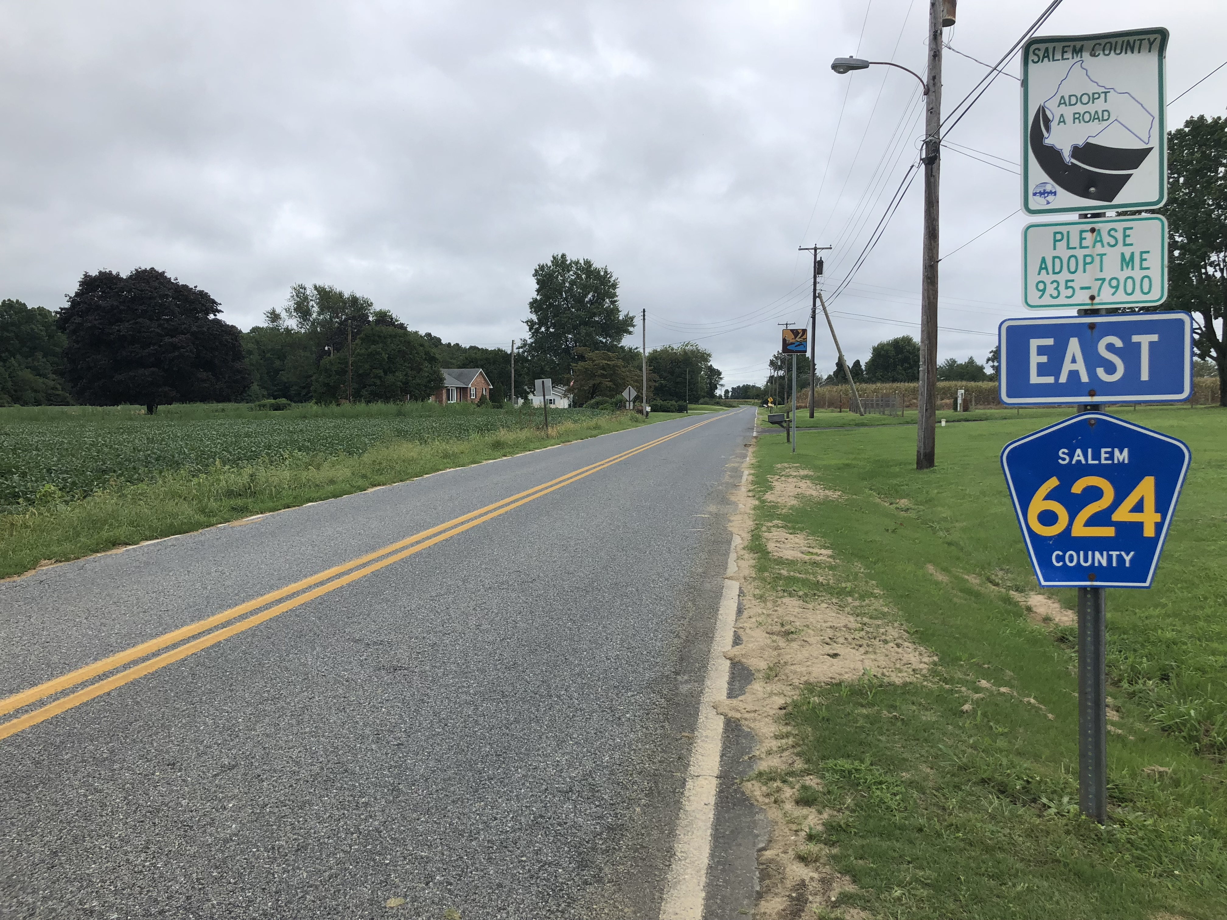 View east along Salem County Route 624 (Fort Elfsborg Road) just east of Salem County Route 625 (Fort Elfsborg-Salem Road) in Elsinboro Township, Salem County, New Jersey